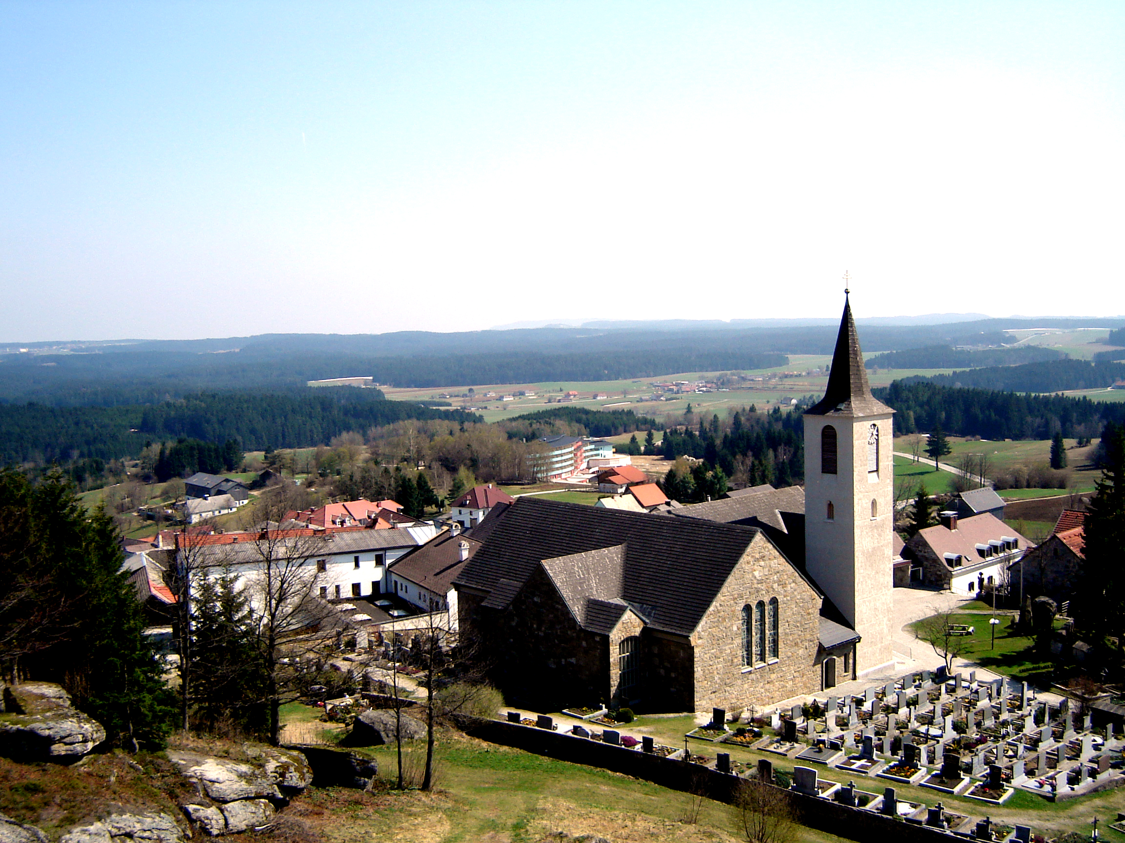 view from the Wachtstein (948 meters) over Traunstein